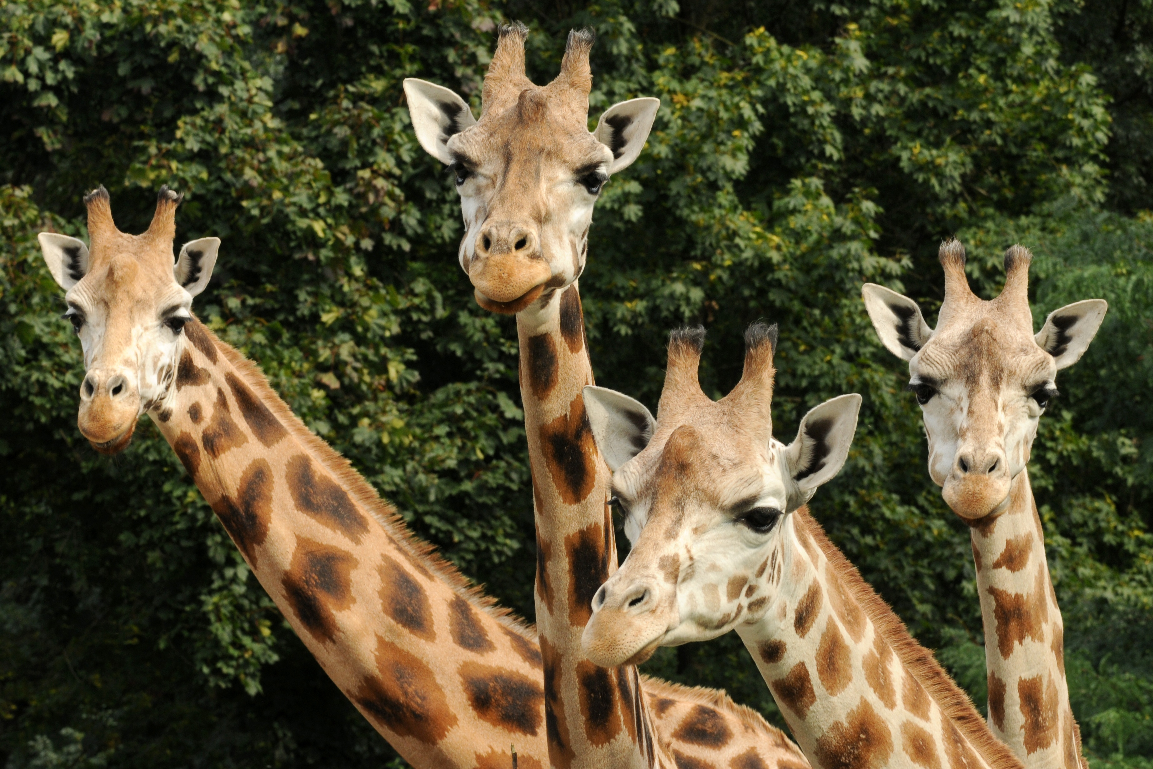 Giraffes in Zoo Olomouc